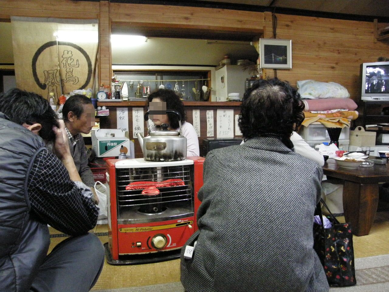 Kuwatani-onsen